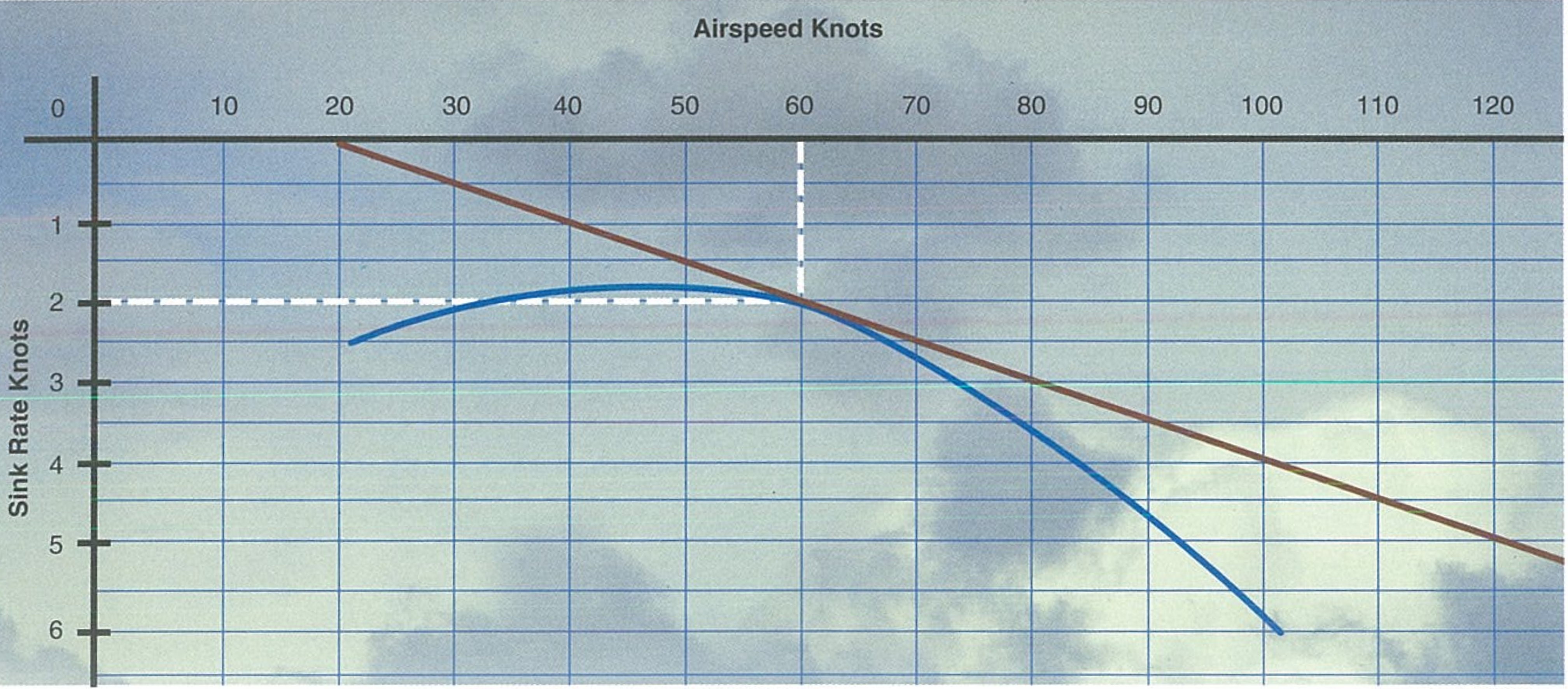 Optimal cruise speed by head wind derived from the polar curve